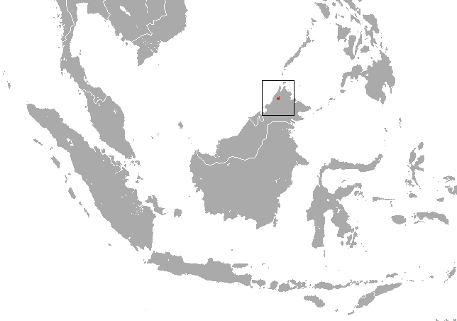 Kinabalu Shrew (Crocidura baluensis) range